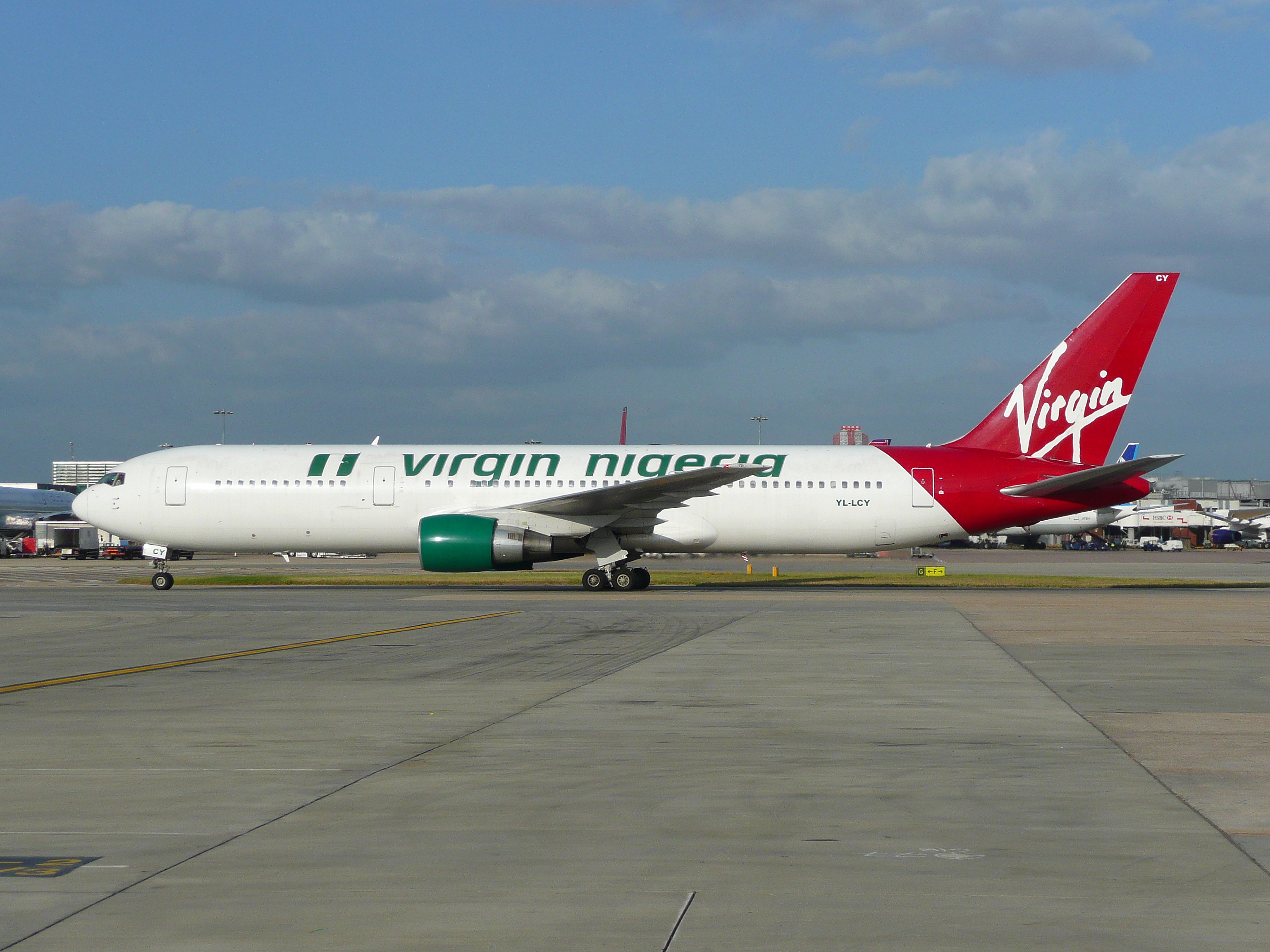 YL-LCY B767 300 Virgin Nigeria opt by LAT Charter Airlines been about this frame